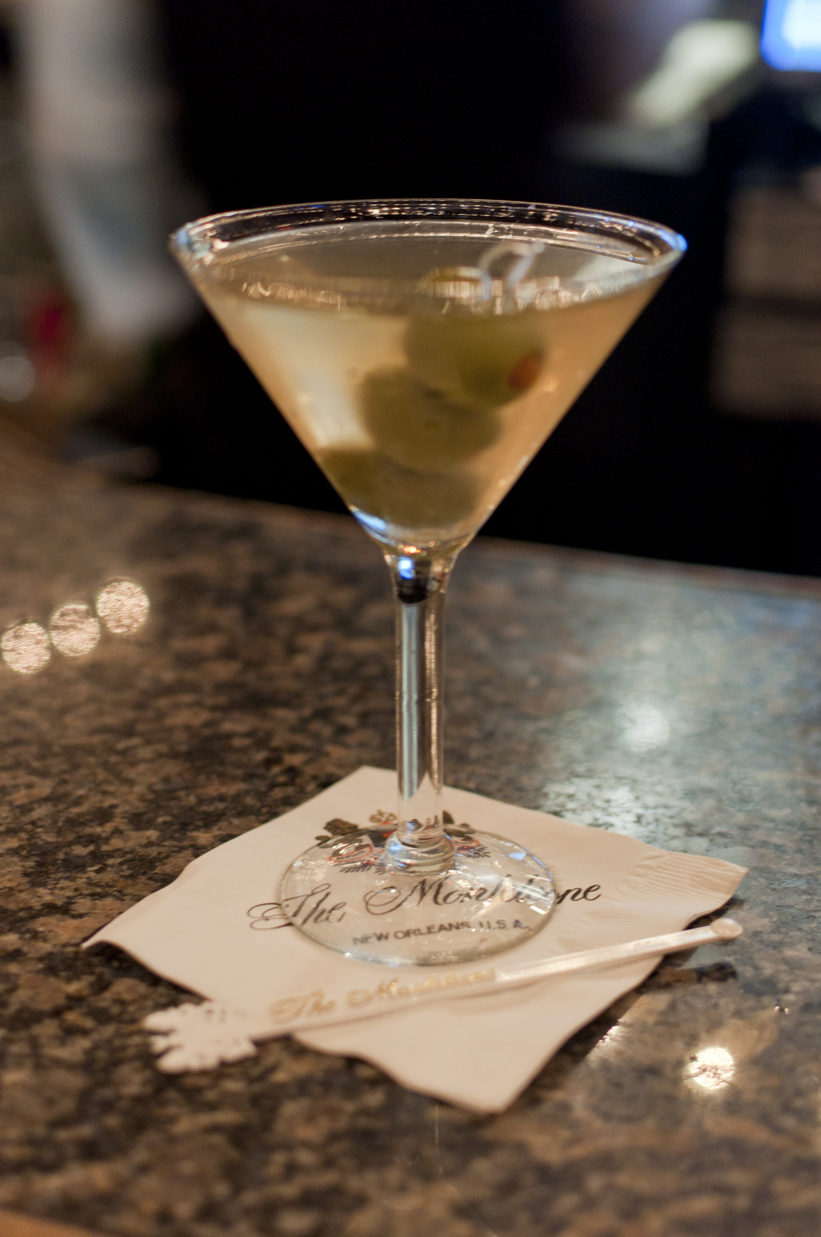 Carousel Bar & Lounge, New Orleans. Vodka Martini.